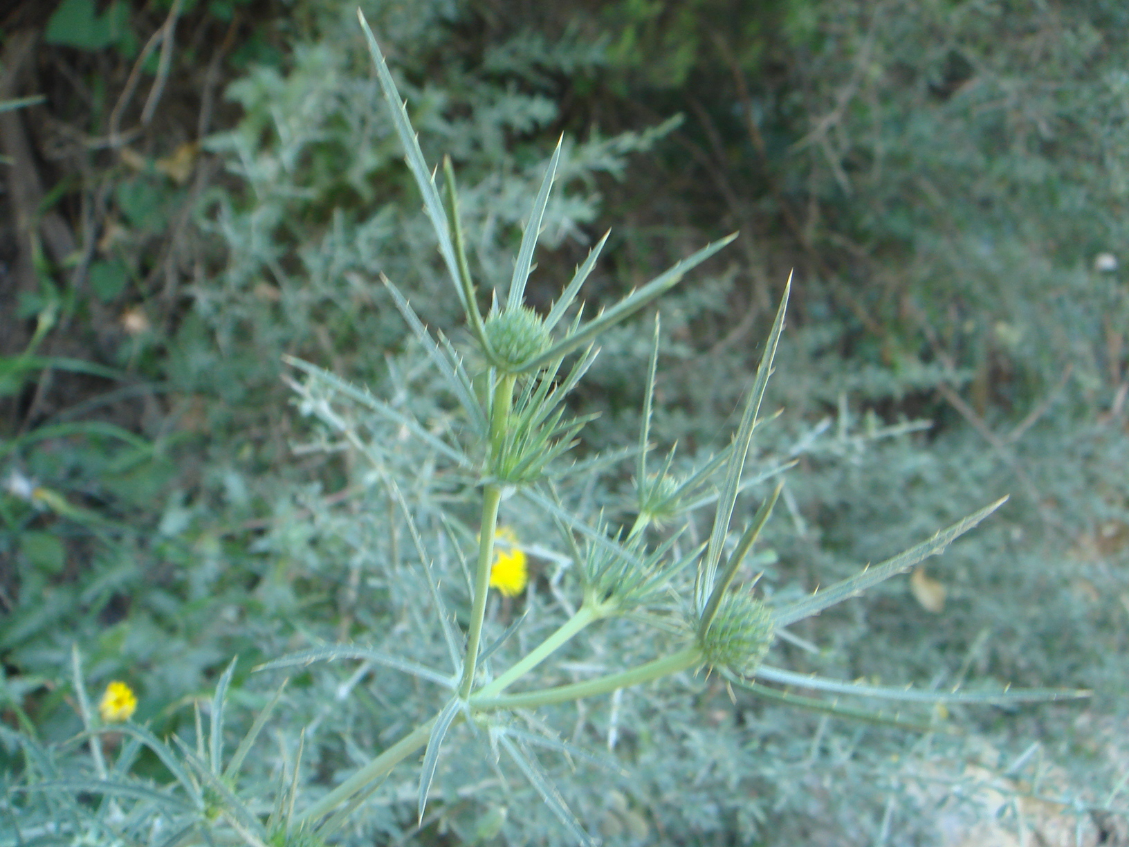 (Eryngium tenue), Spain, Ceuta.